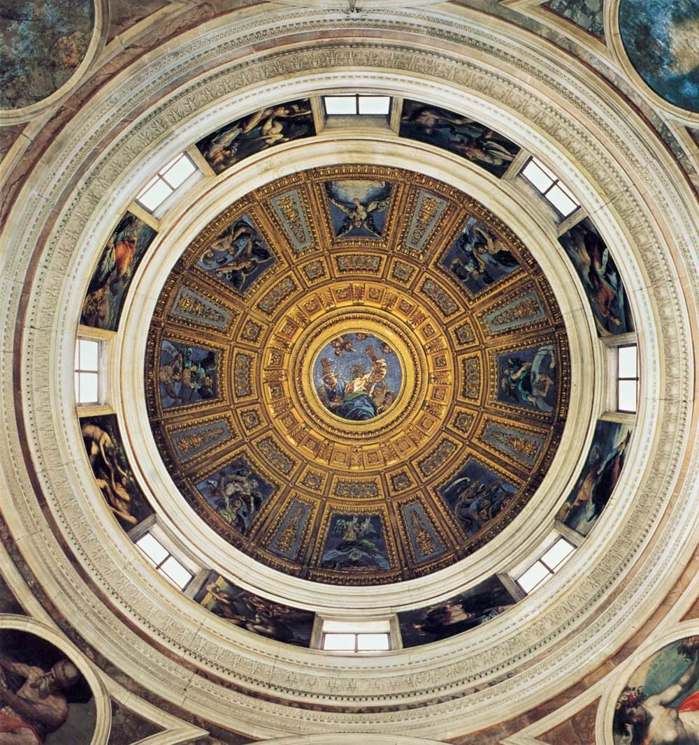 Dome of the Chigi Chapel